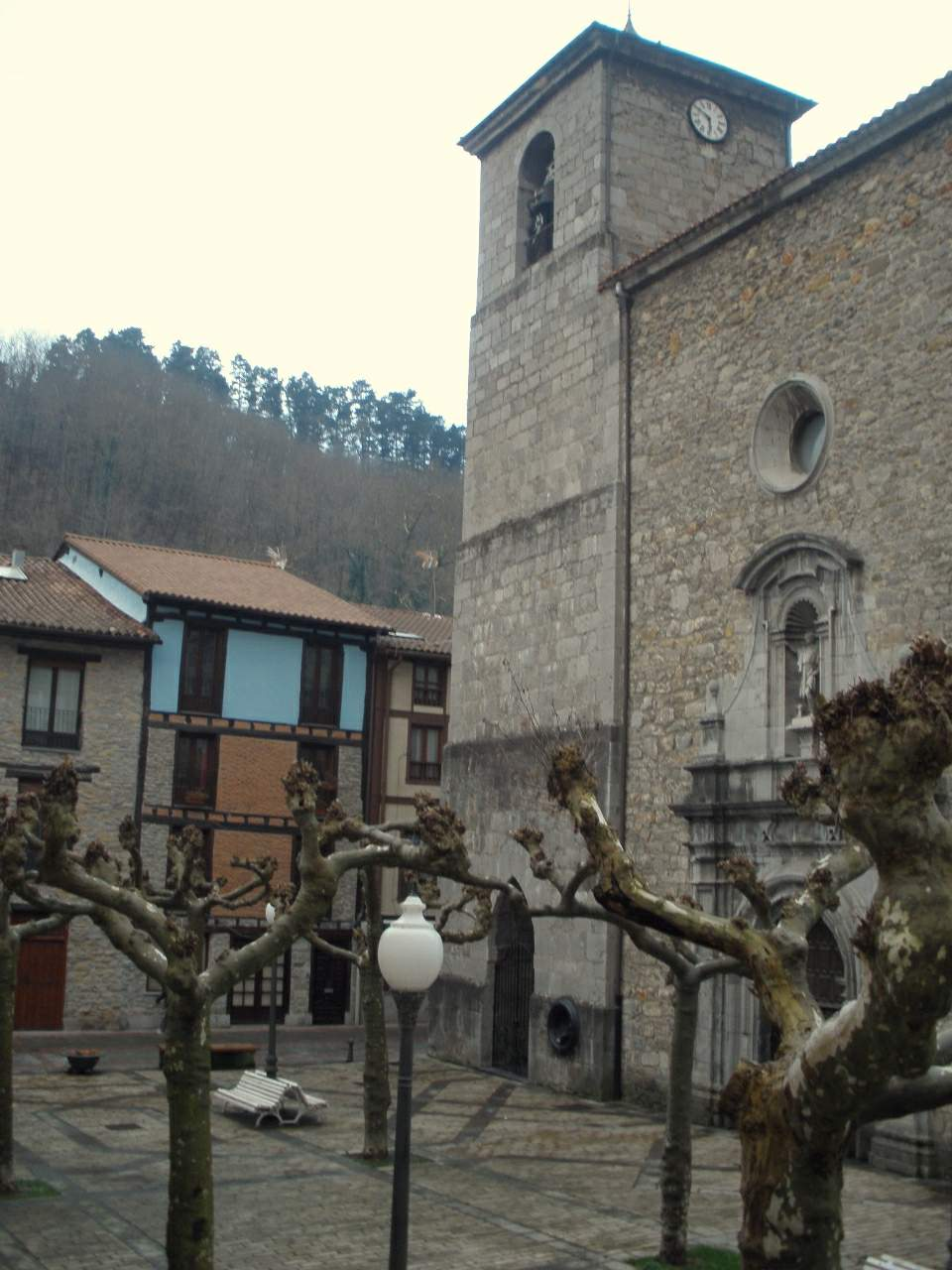 Alegia (Guipúzcoa)